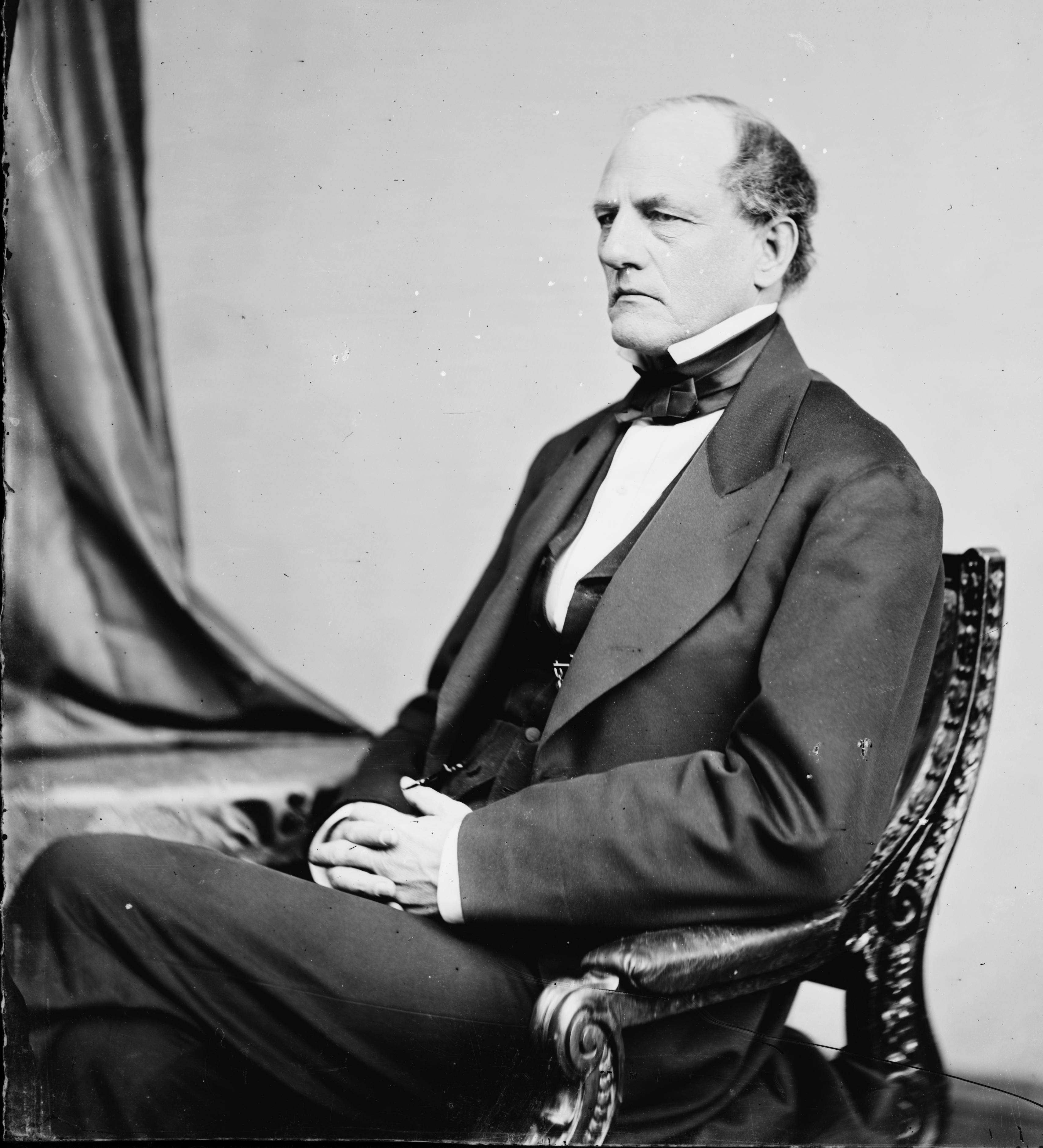 George Washington Woodward. Library of Congress description: "Hon. George Washington Woodward of Pa."